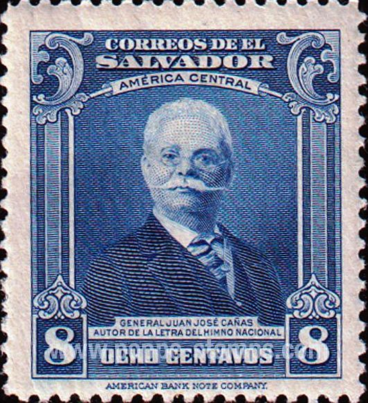 Stamp of Juan José Cañas (1826-1918), author of the lyrics of the National Hymn of El Salvador